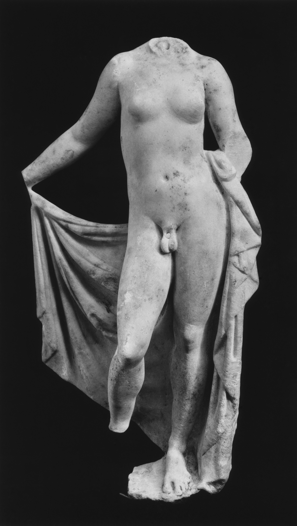 Hermaphroditus was a half-male, half-female deity who was the child of the messenger-god Hermes and Aphrodite, goddess of love. A favorite subject of Hellenistic and Roman artists, he was depicted with breasts, male genitals, and a voluptuous body. Images of Hermaphroditus were placed in gymnasia, baths, theaters, and homes. The small size of this example suggests that it was made as a decorative object or for a household shrine.